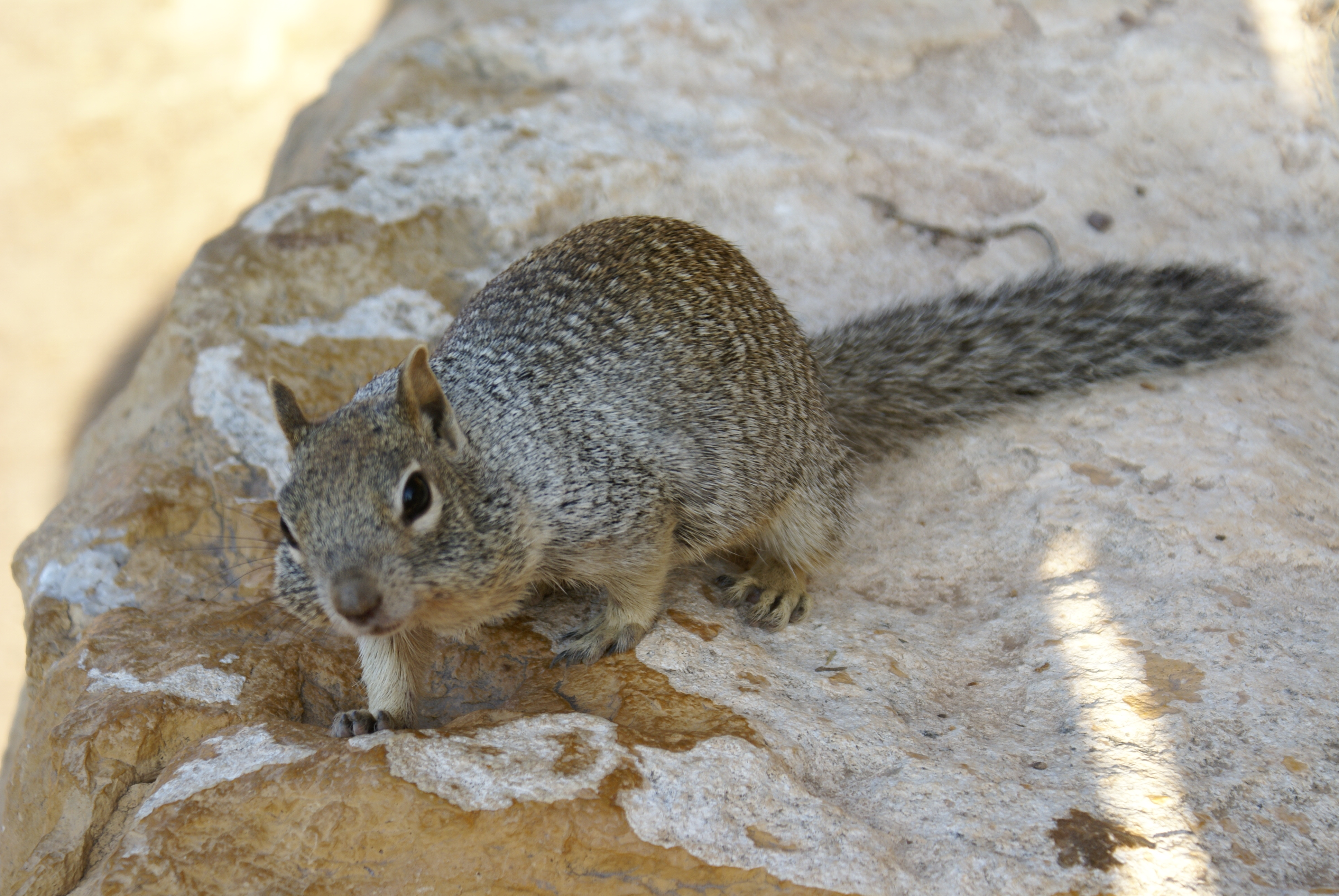 Rock Squirrel in Grand Canyon National Park